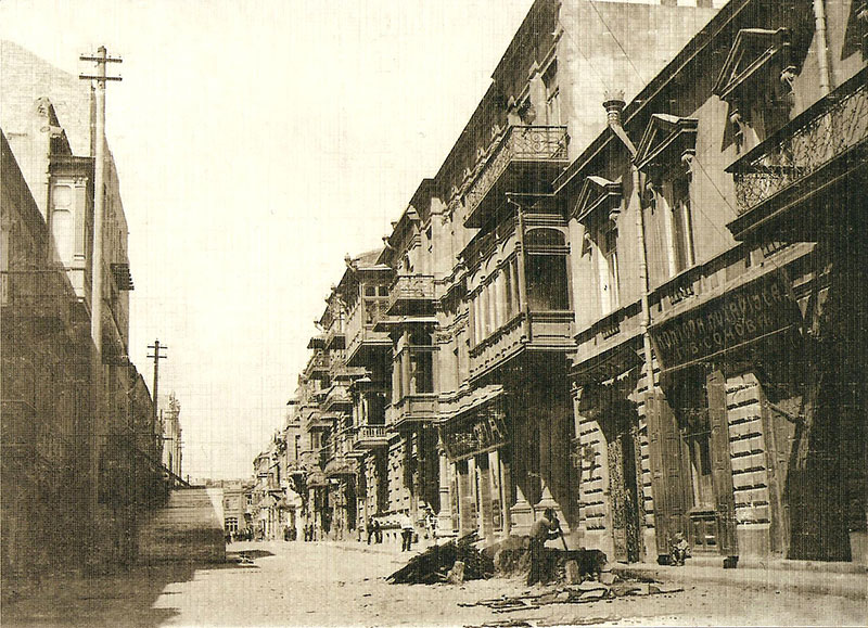 Politseyskaya Street in Baku